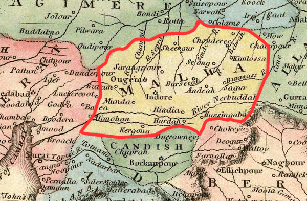 Originally by: Lucas, Fielding Jr - 1823 CC Resized image for visibility.